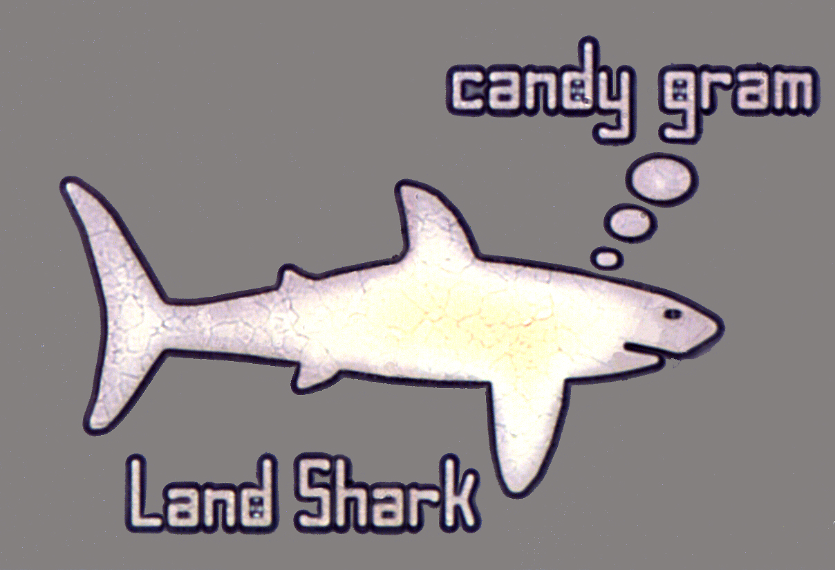 ChipWorksLandShark